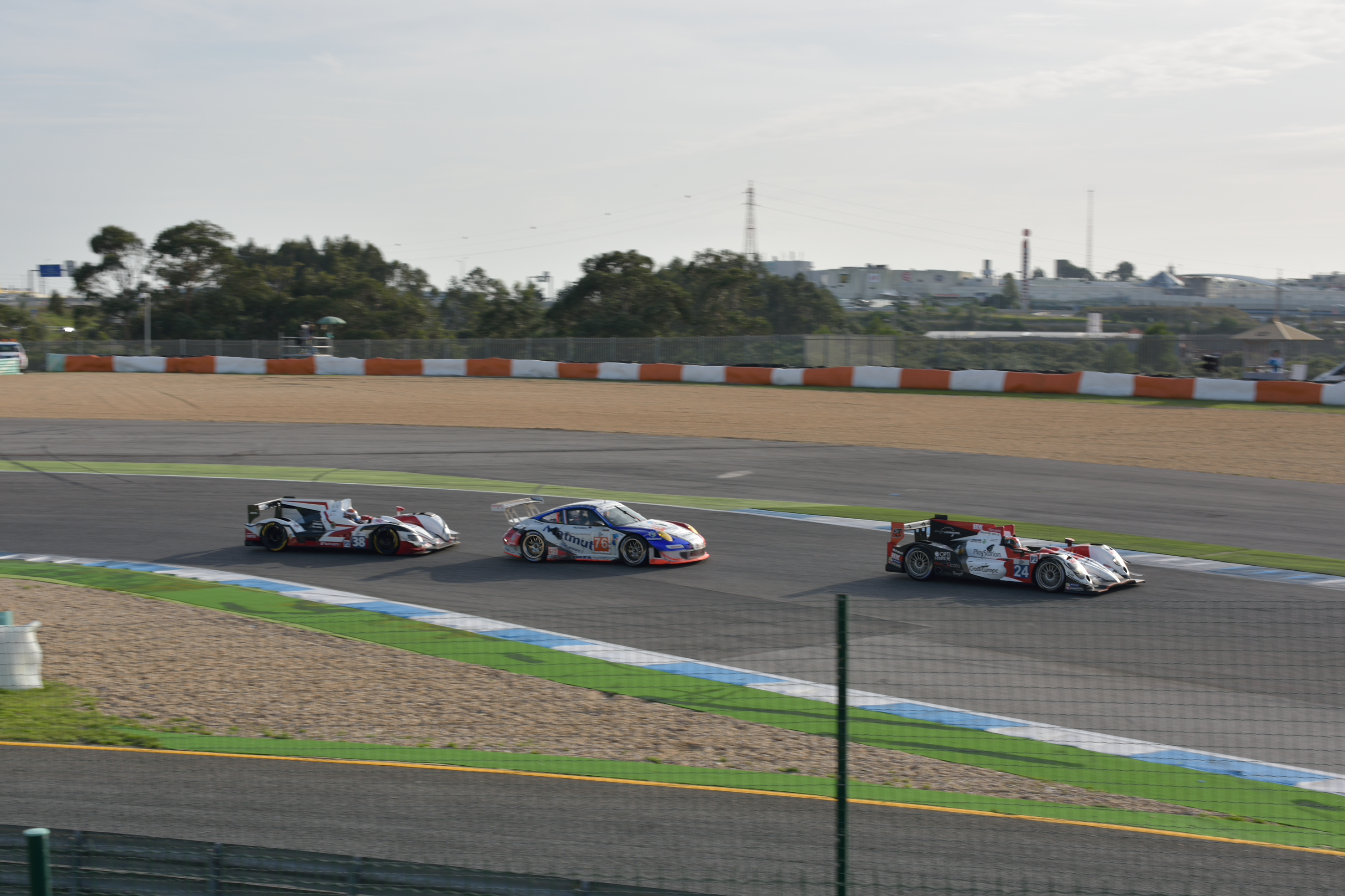 European Le Mans Series